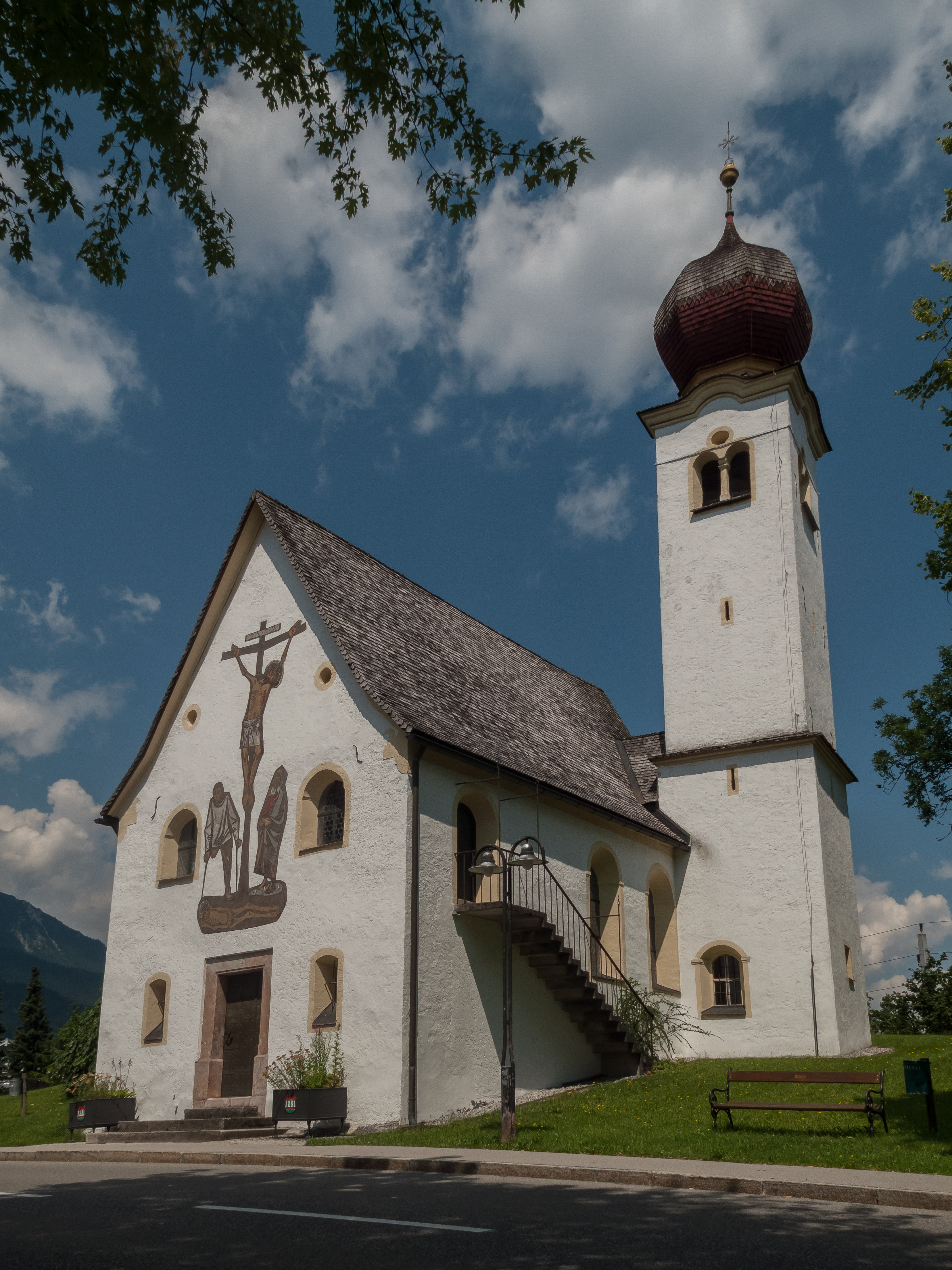 Reutte, chapel: rtskapelle heilige Rochus